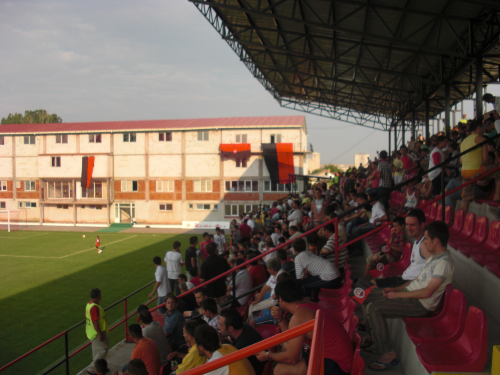 Milano Arena in Kumanovo, Republic of Macedonia